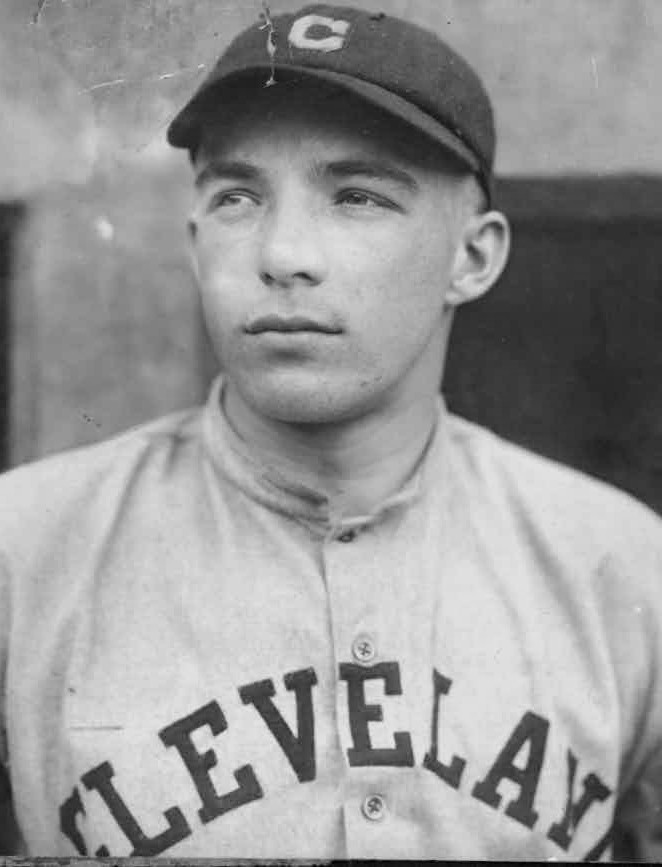 Professional baseball player Billy Southworth as a member of the Cleveland Indians in 1915.